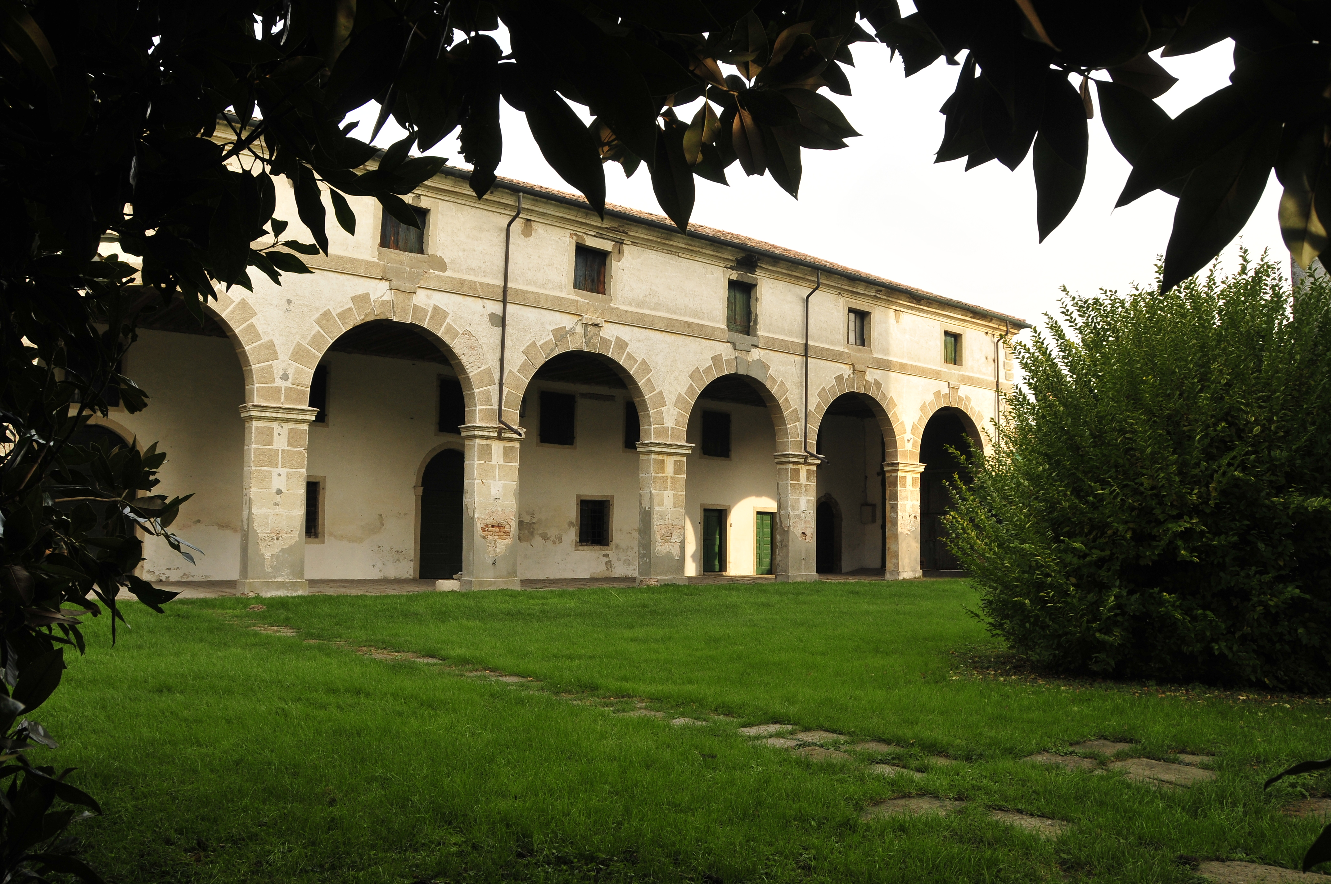 Palace Priuli Ballan barchessa (wing)